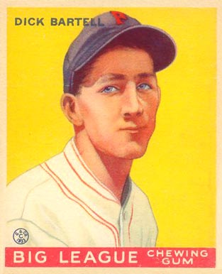 1933 Goudey baseball card of Dick Bartell of the Philadelphia Phillies #28. PD-not-renewed